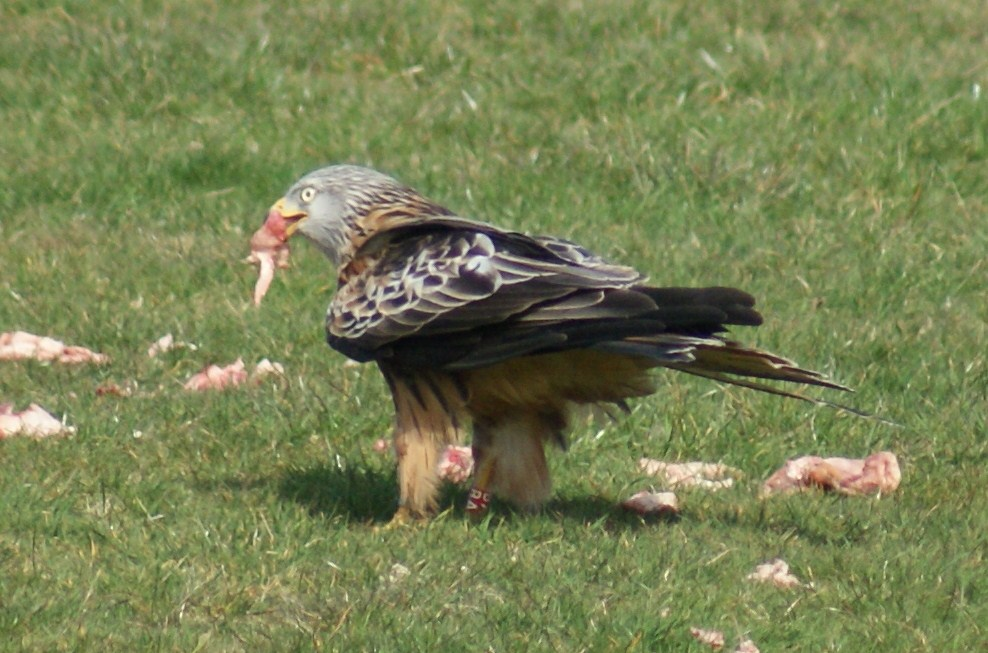 Red Kite Milvus milvus, at feeding station at Gigrin Farm, Rhayader, Wales